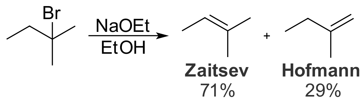 E2 Elimination on 2-bromo-2-methylbutane with ethoxide favors the formation of the Zaitsev product.